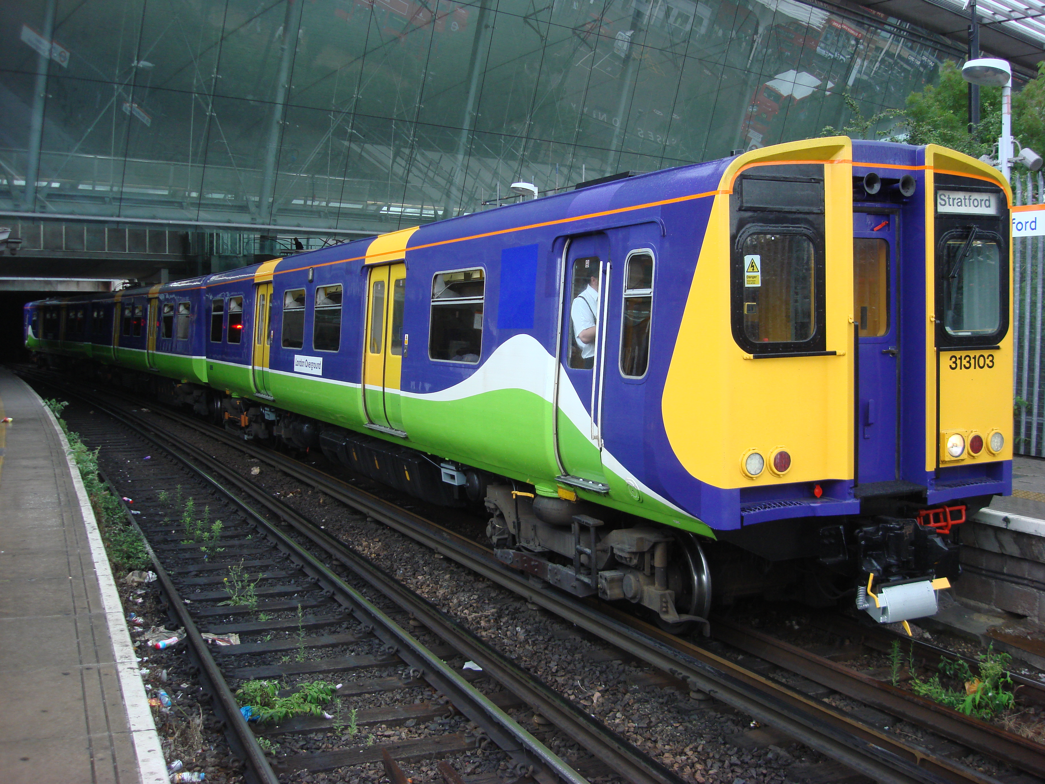 British Rail Class 313 number 313103 at Stratford railway station.